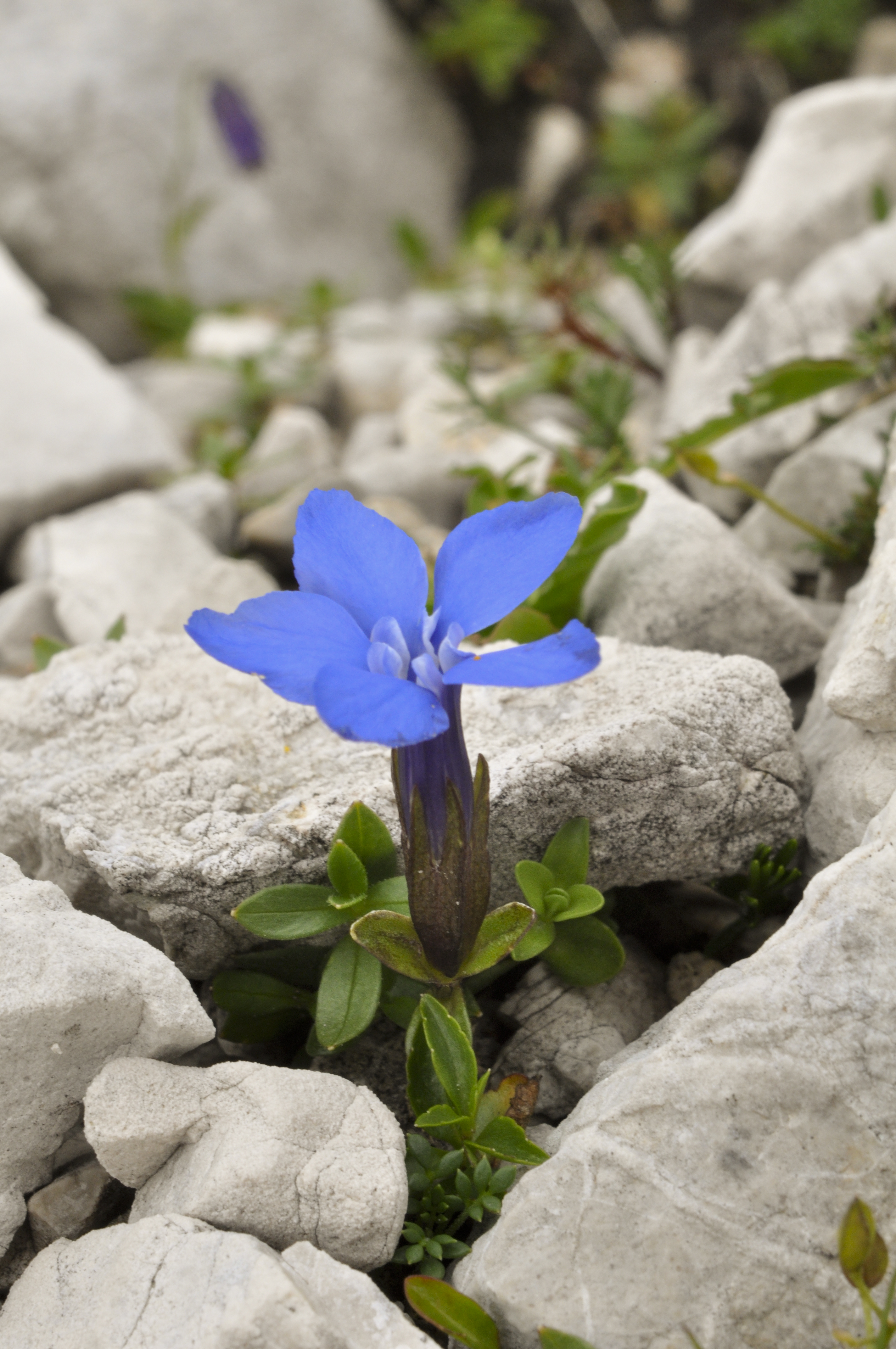 Gentiana verna in Totes Gebirge, Austria